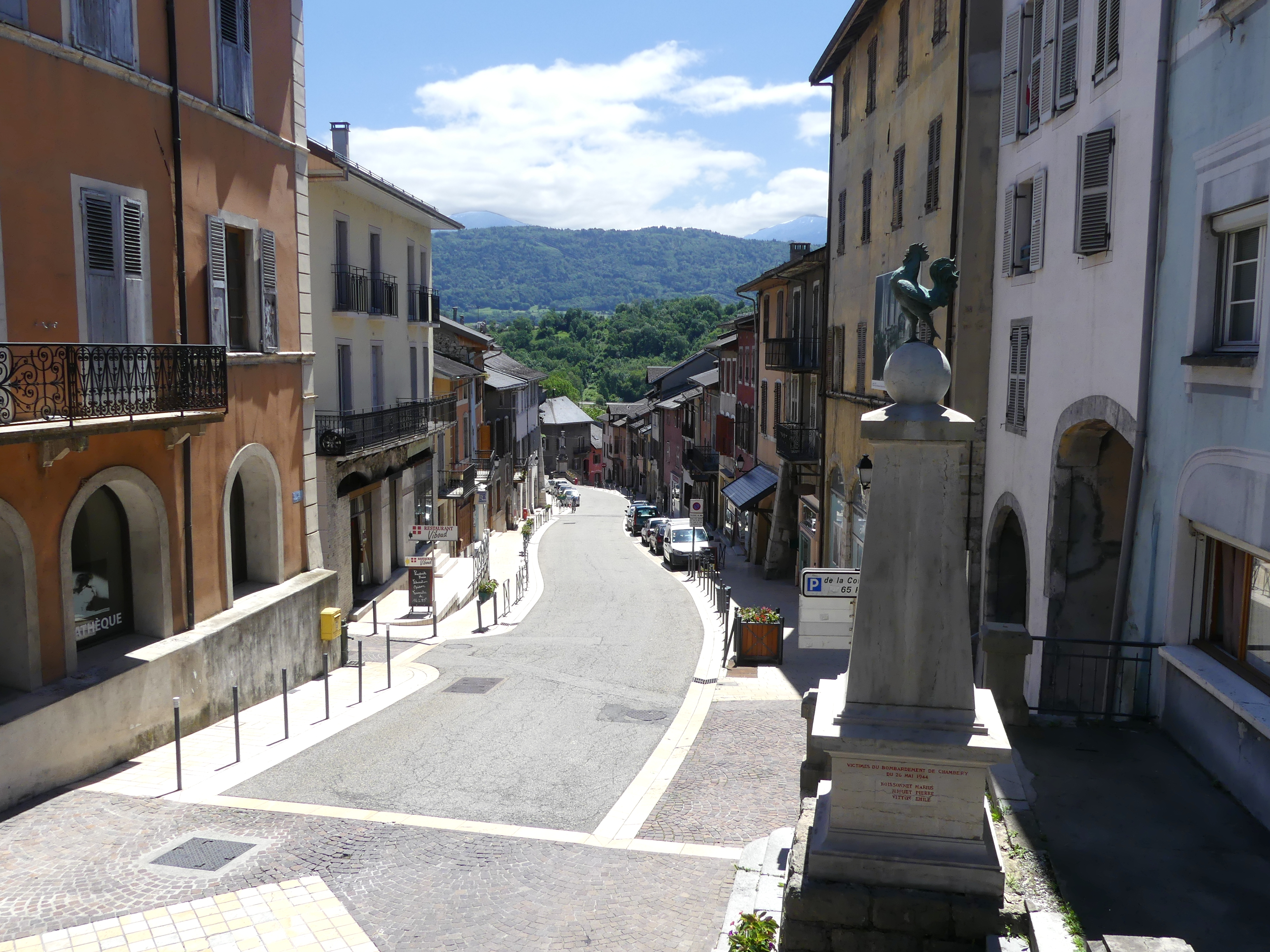 Sight of Rue François Dumas street, crossing the old town of Montmélian, in the direction of the Isère river, in Savoie, France.